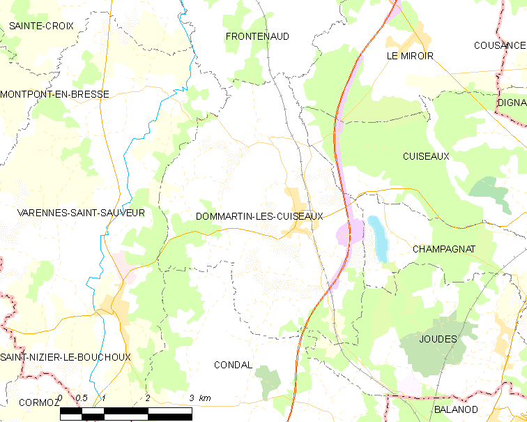 Map of French municipality